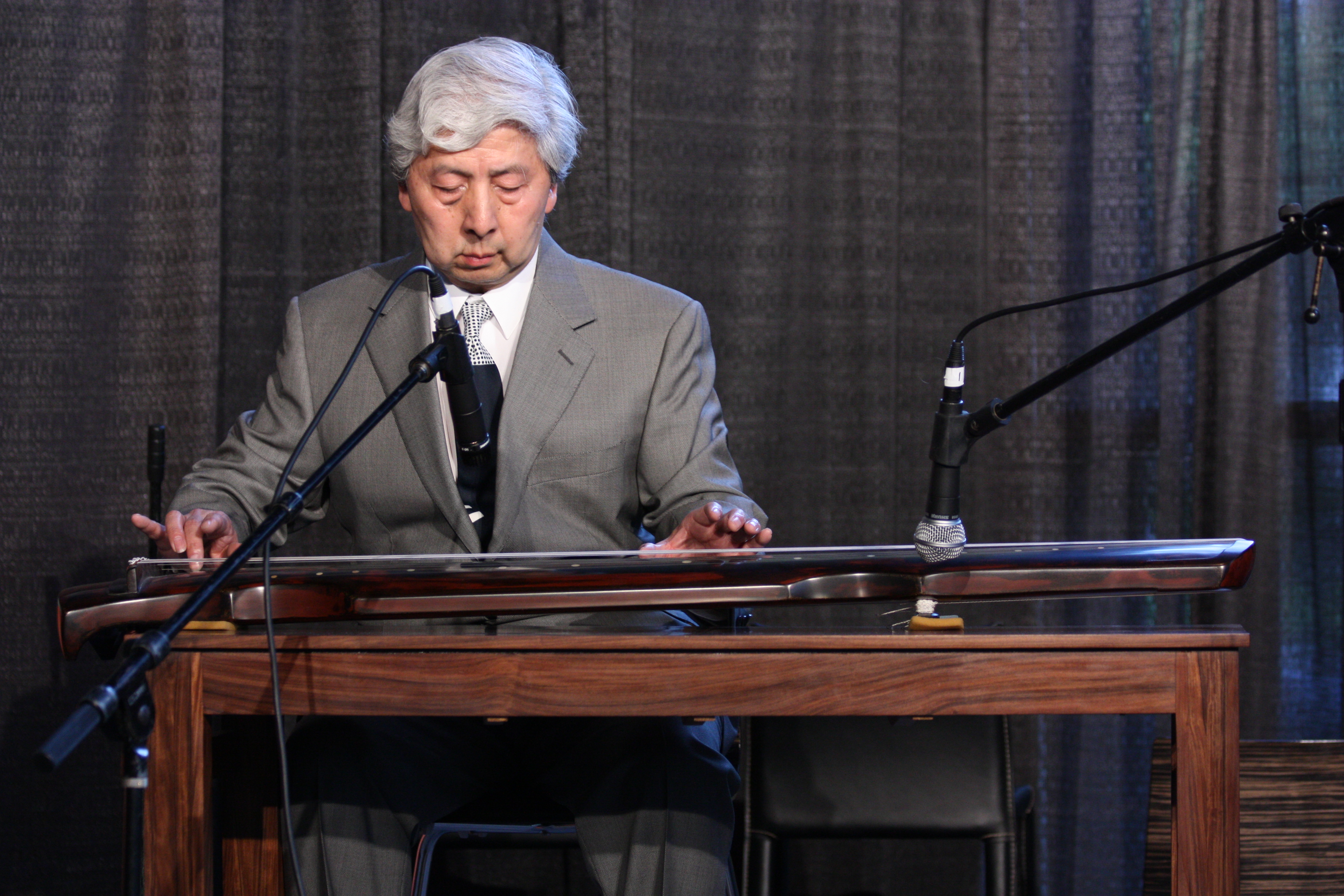 Wu Ziying, Folklife Cafe, Northwest Folklife Festival, Seattle